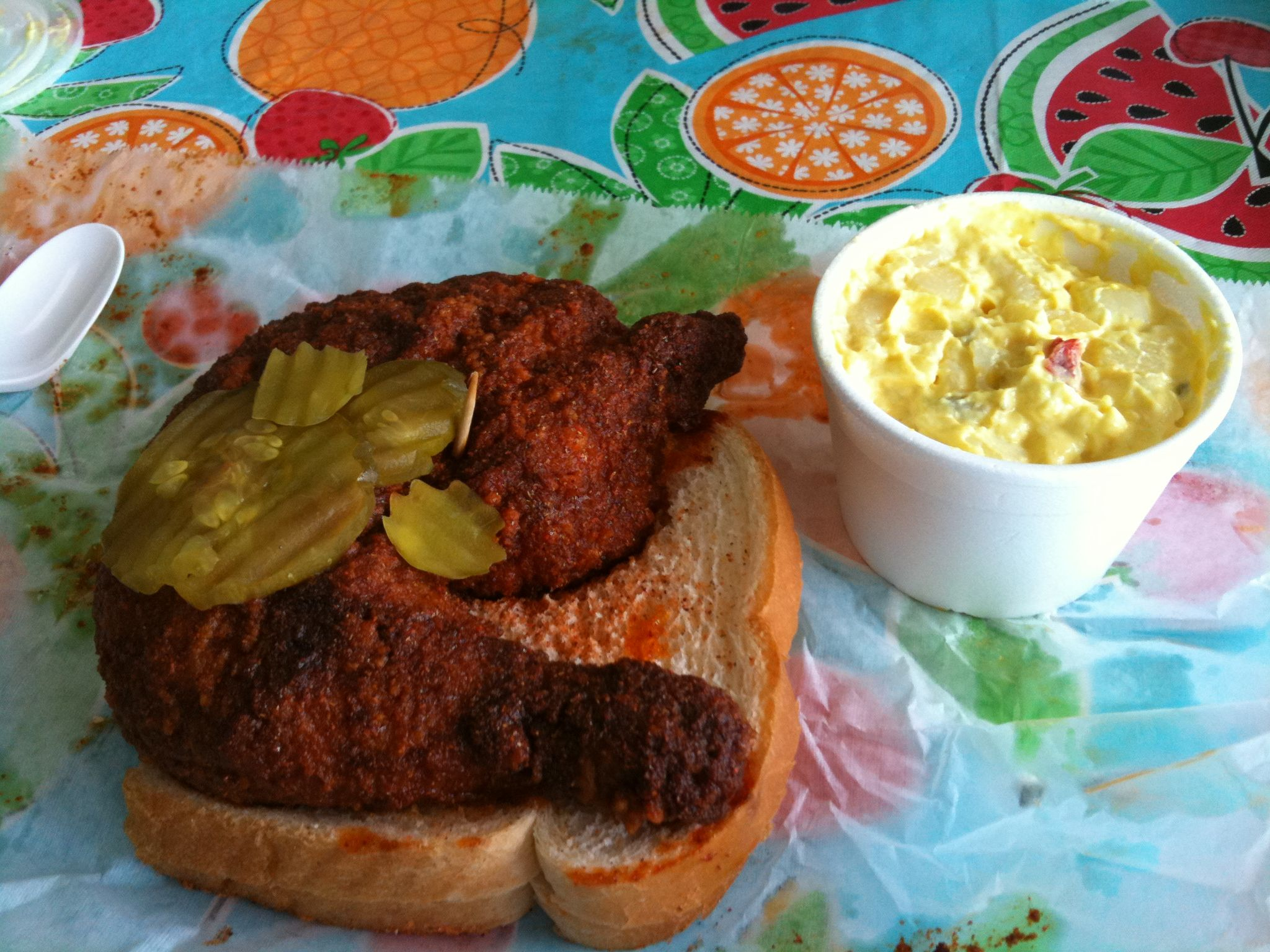 Nashville-style hot chicken with traditional accompaniments